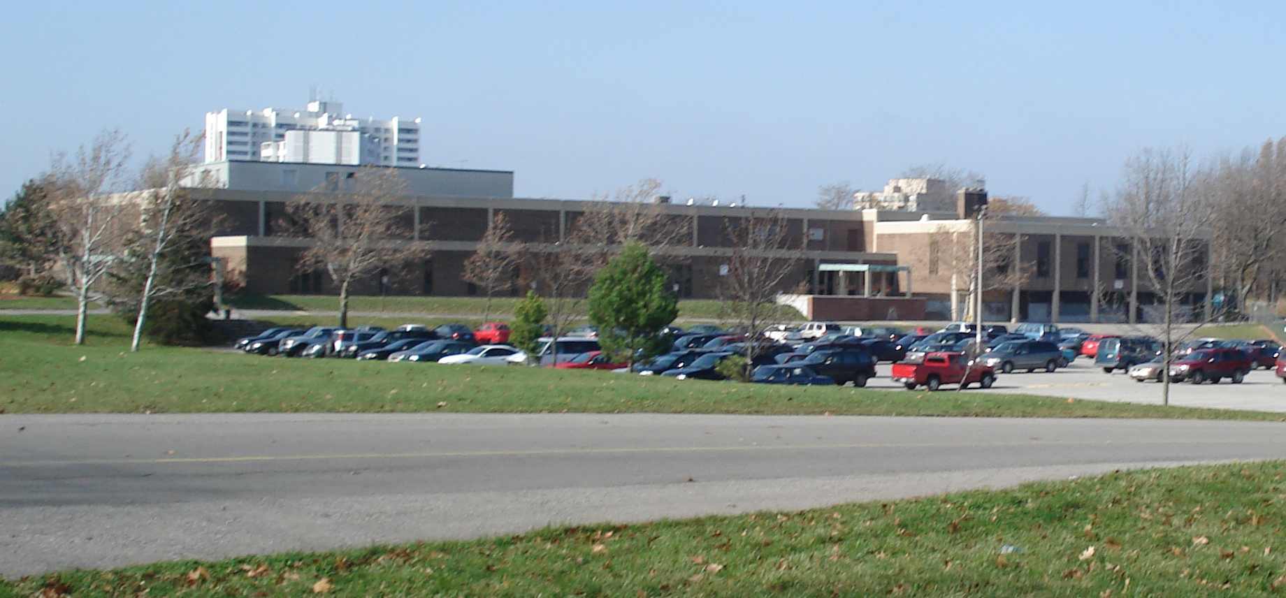 I took this picture